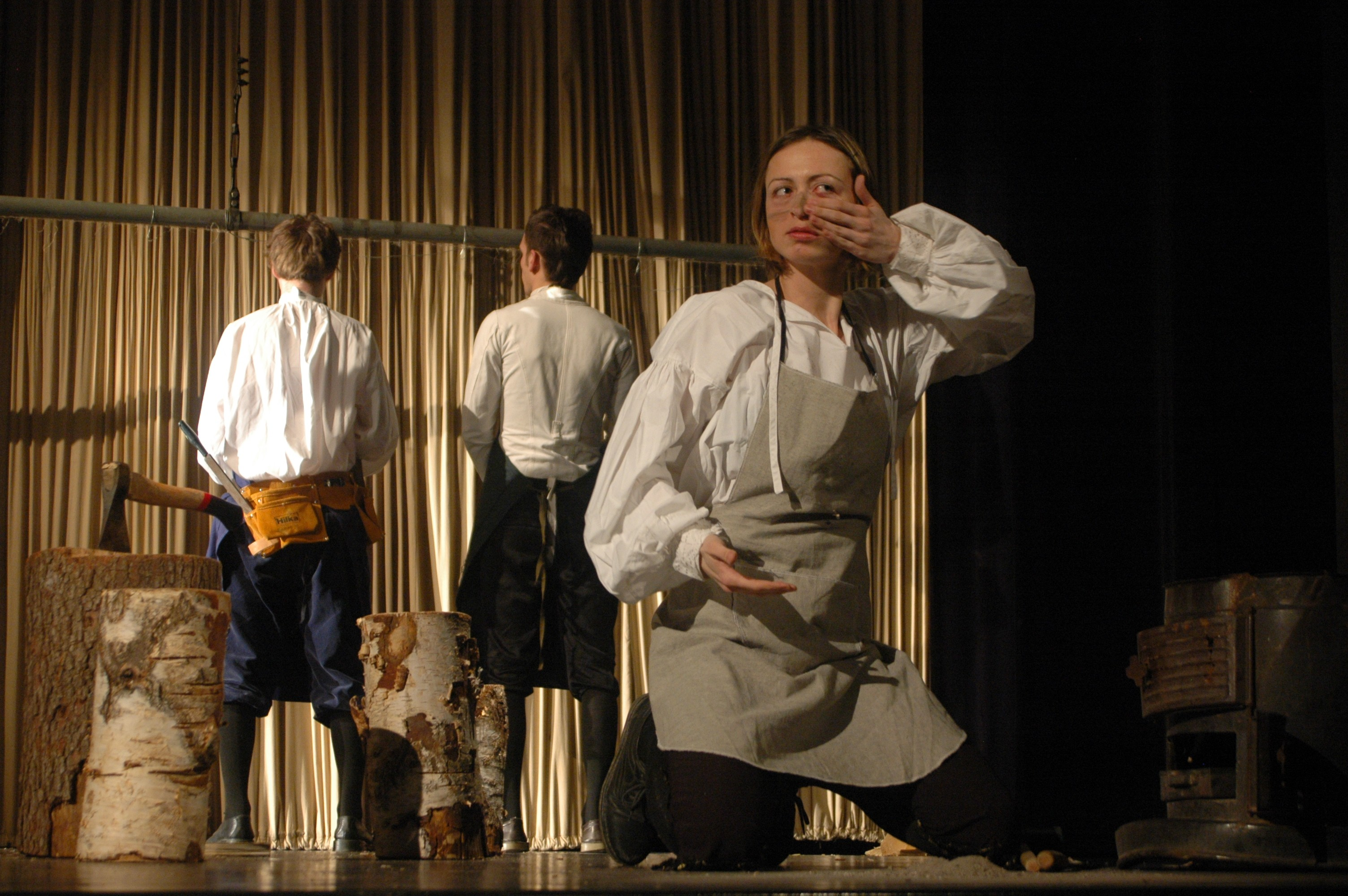 Kateřina Bohadlová in production Andromache.